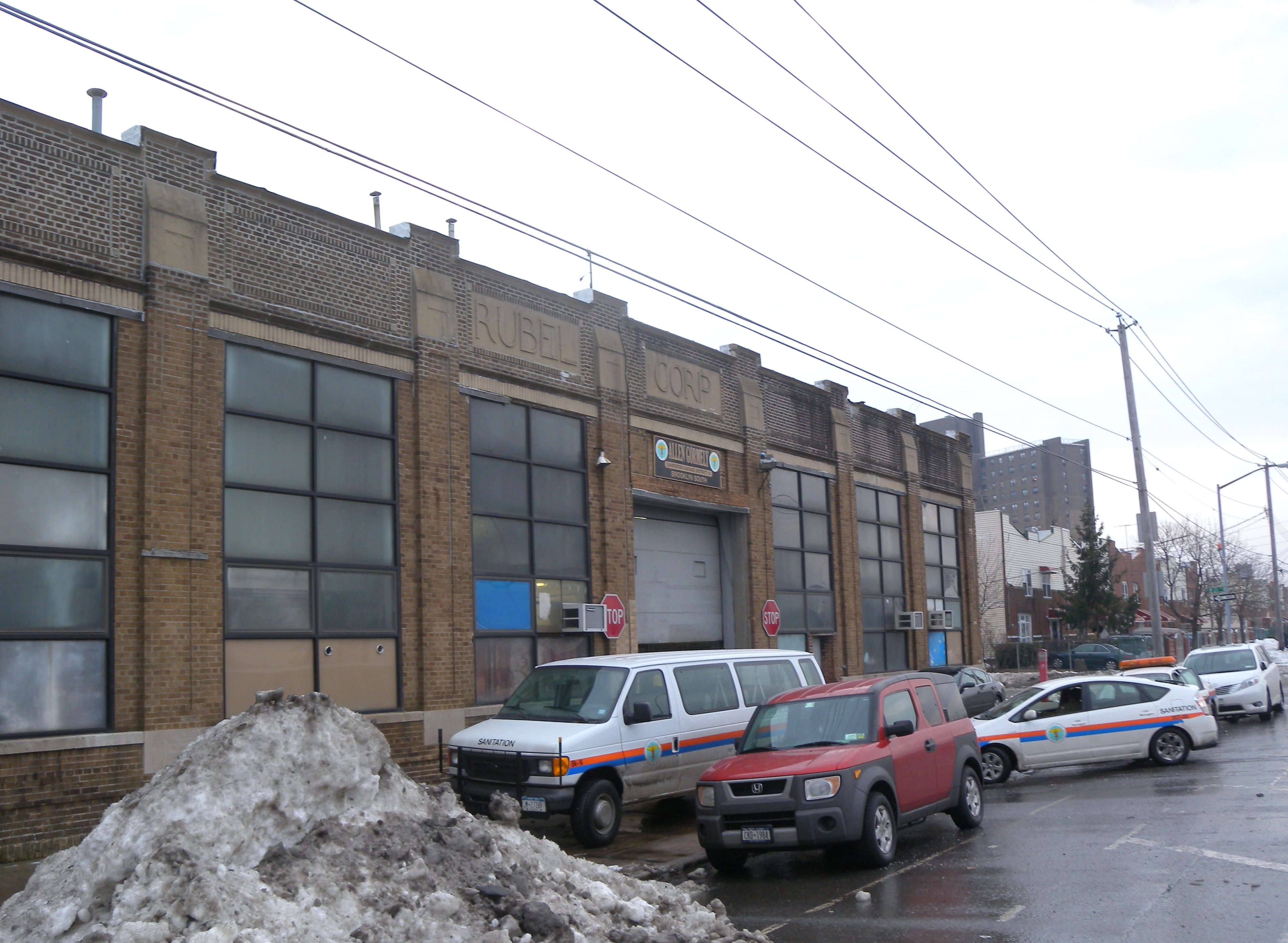 Looking southwest at sanitation garage, formerly Rubel Ice Company, on a cloudy New Years Day.